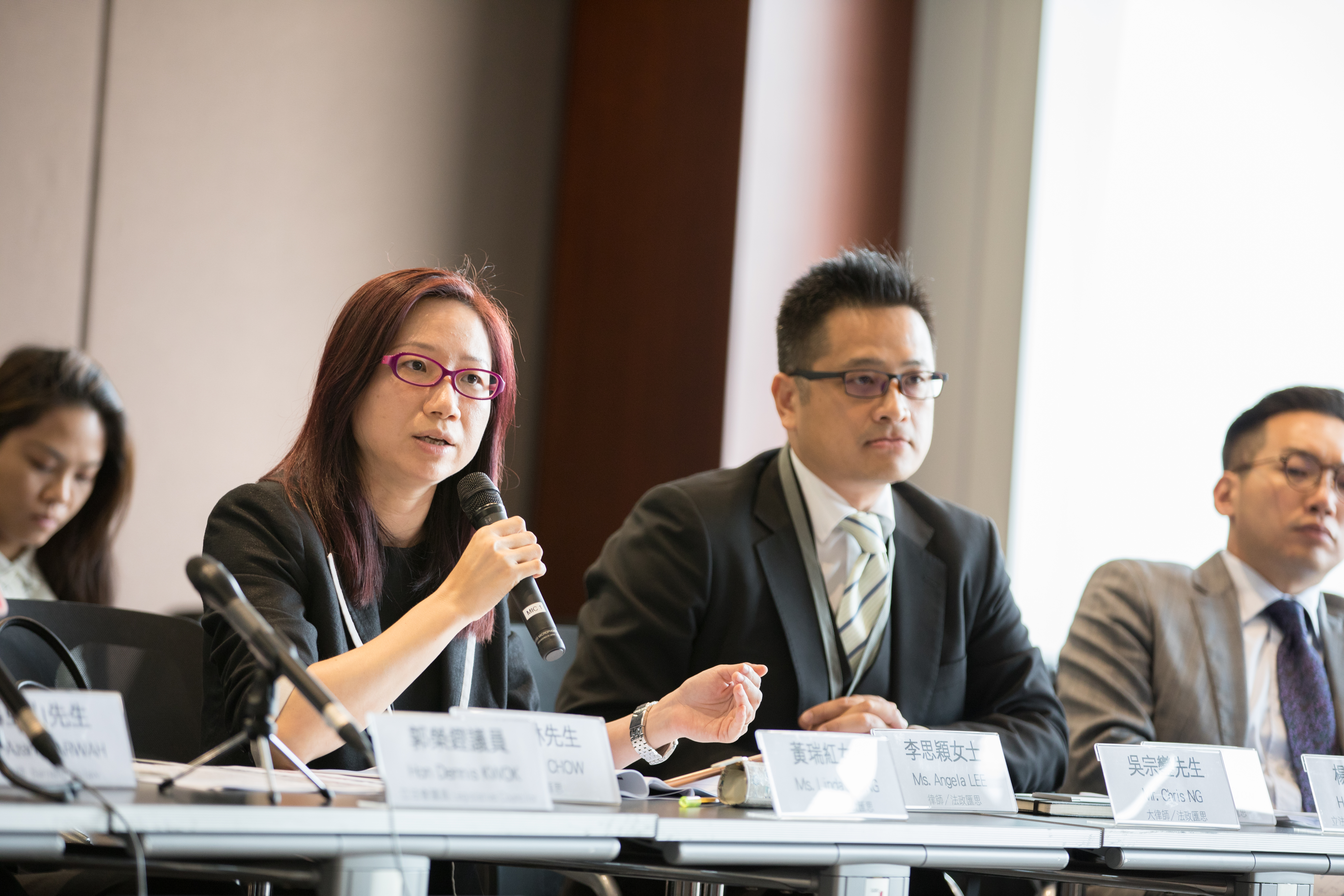 Linda Wong Shui Hong and Chris Ng Chung Luen 粵語: 黃瑞紅 吳宗鑾